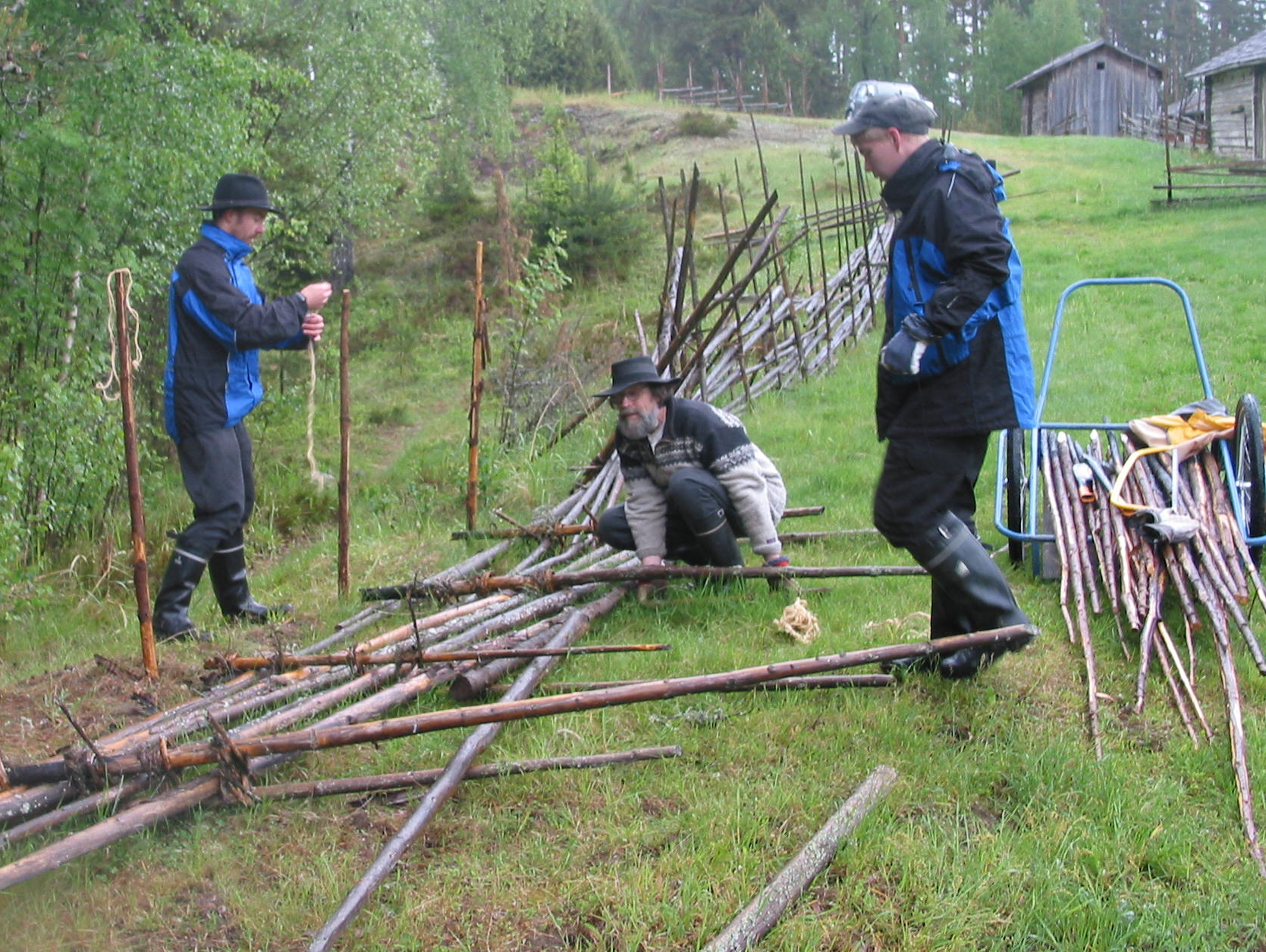 Korteniemi, Liesjärvi natural park, Tammela, Finland, Roundpole fence